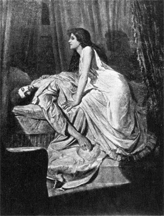 The Vampire